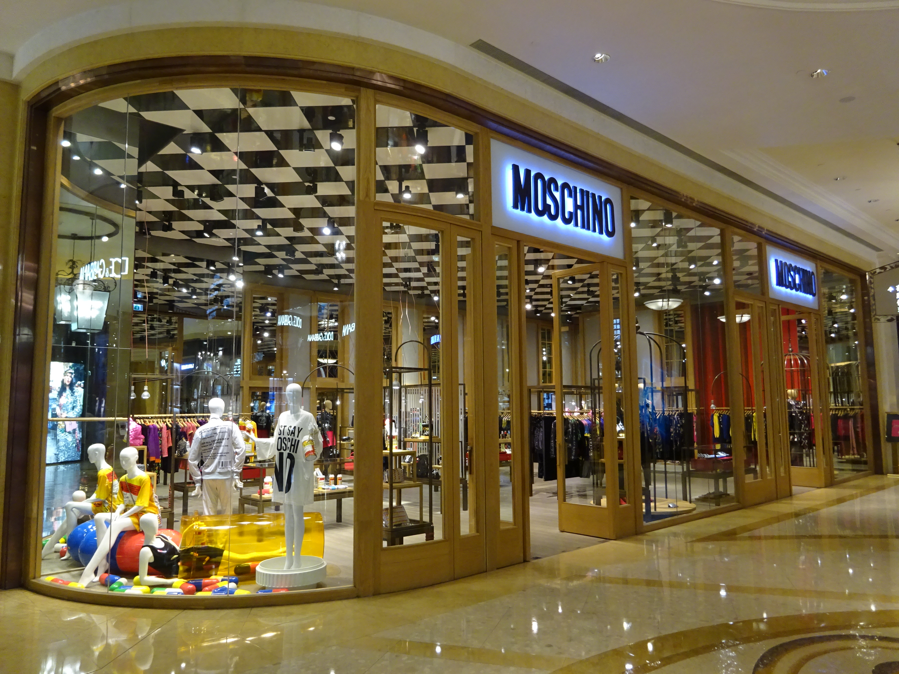 澳門 Macau 路氹城 Cotai 四季名店 Shoppes at Four Seasons in November 2016